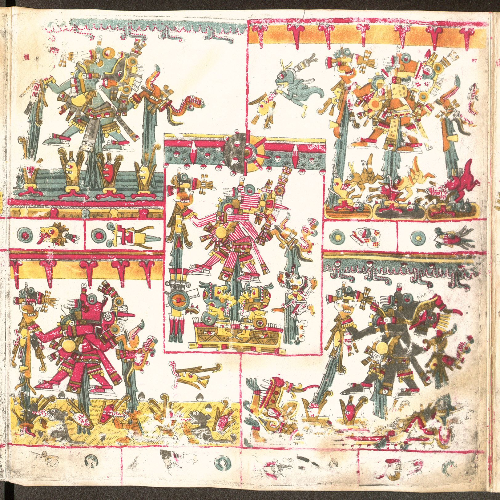 Page 27 of the Codex Borgia.